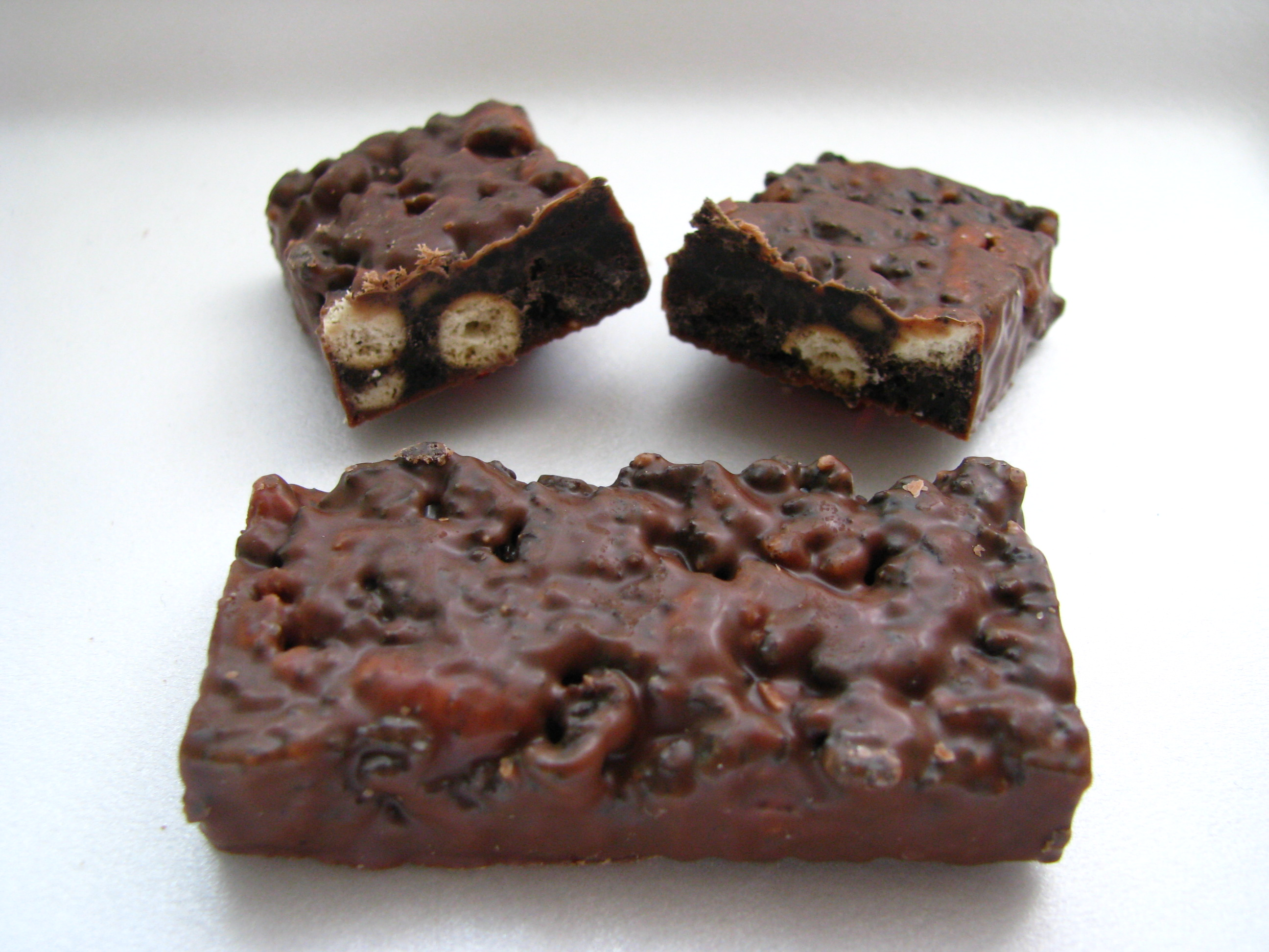 Black Thunder chocolate bars, whole and cut to display cross-section.